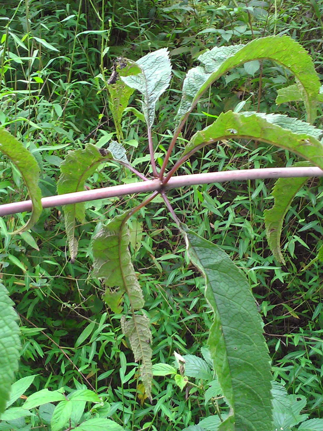 Photo of whorled leaves of Joe Pye Weed plant.